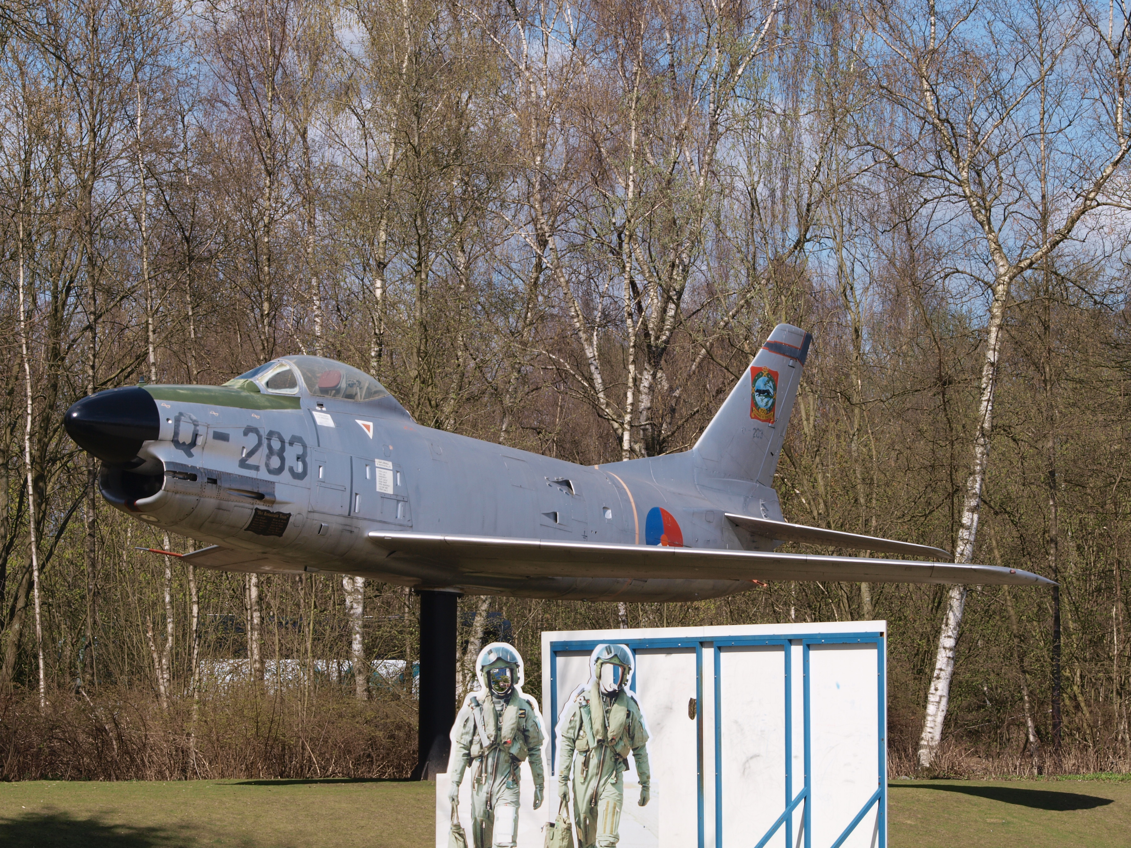 Photographed at Militaire Luchtvaart Museum Soesterberg.